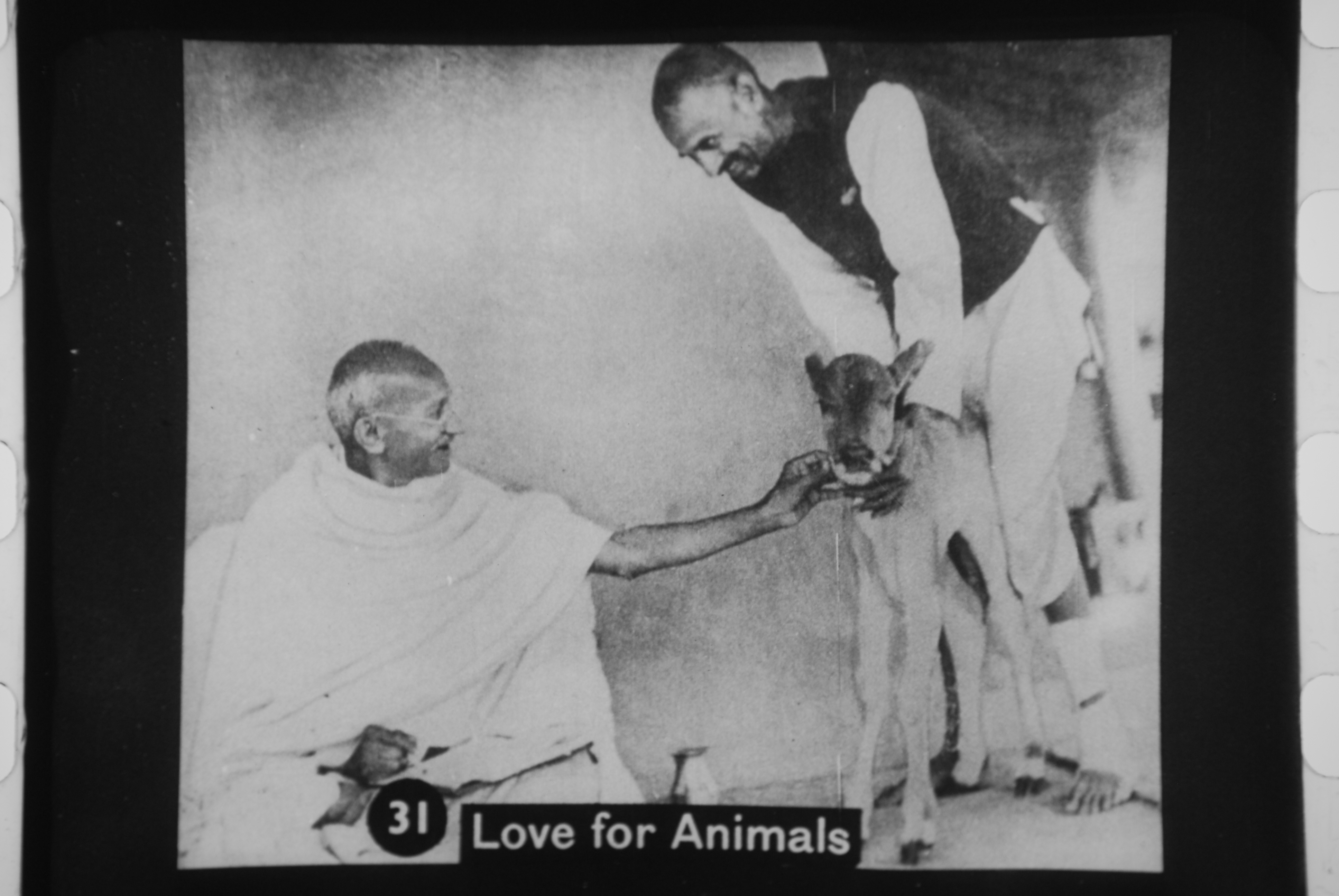 Gandhi with calf